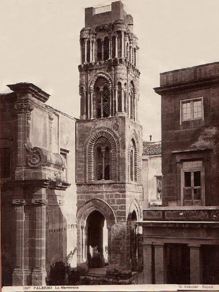 Giorgio Sommer (1834-1914), "Palermo - La Martorana church". Catalogue number: 1327.